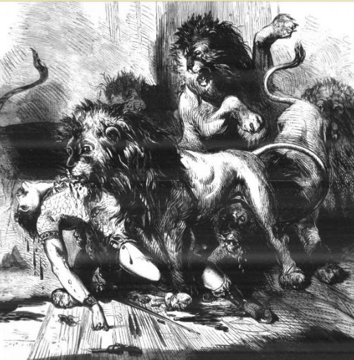 The death of Massarti the Lion-Tamer at Mander's Menagerie in 1872